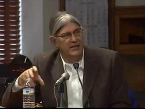 Ward Churchill testifying in defense of his scholarship in the civil trial of Ward Churchill v. University of Colorado.